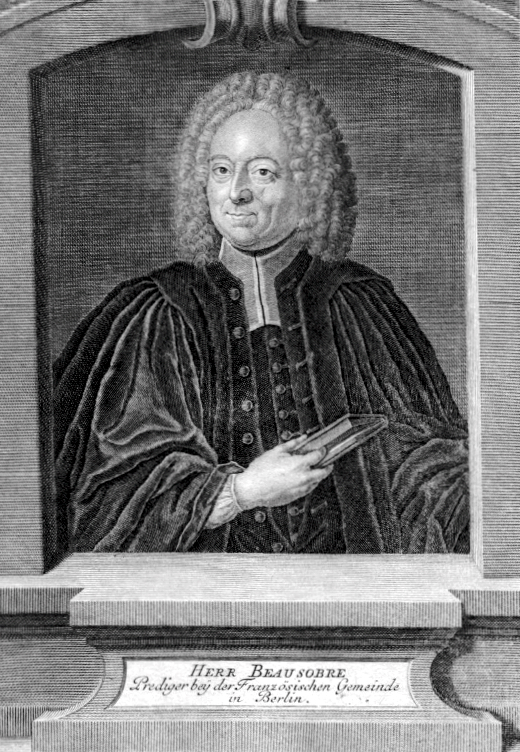 Portrait of Isaac de Beausobre (8 March 1659 – 5 June 1738), French Protestant churchman, now best known for his history of Manichaeism. René-Antoine Ferchault de Réaumur (1683-1757)